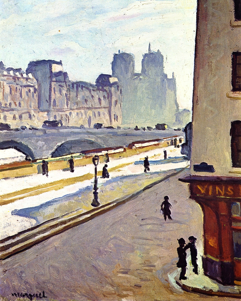 Notre Dame 2 Albert Marquet (1904)